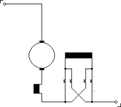 Electric motors